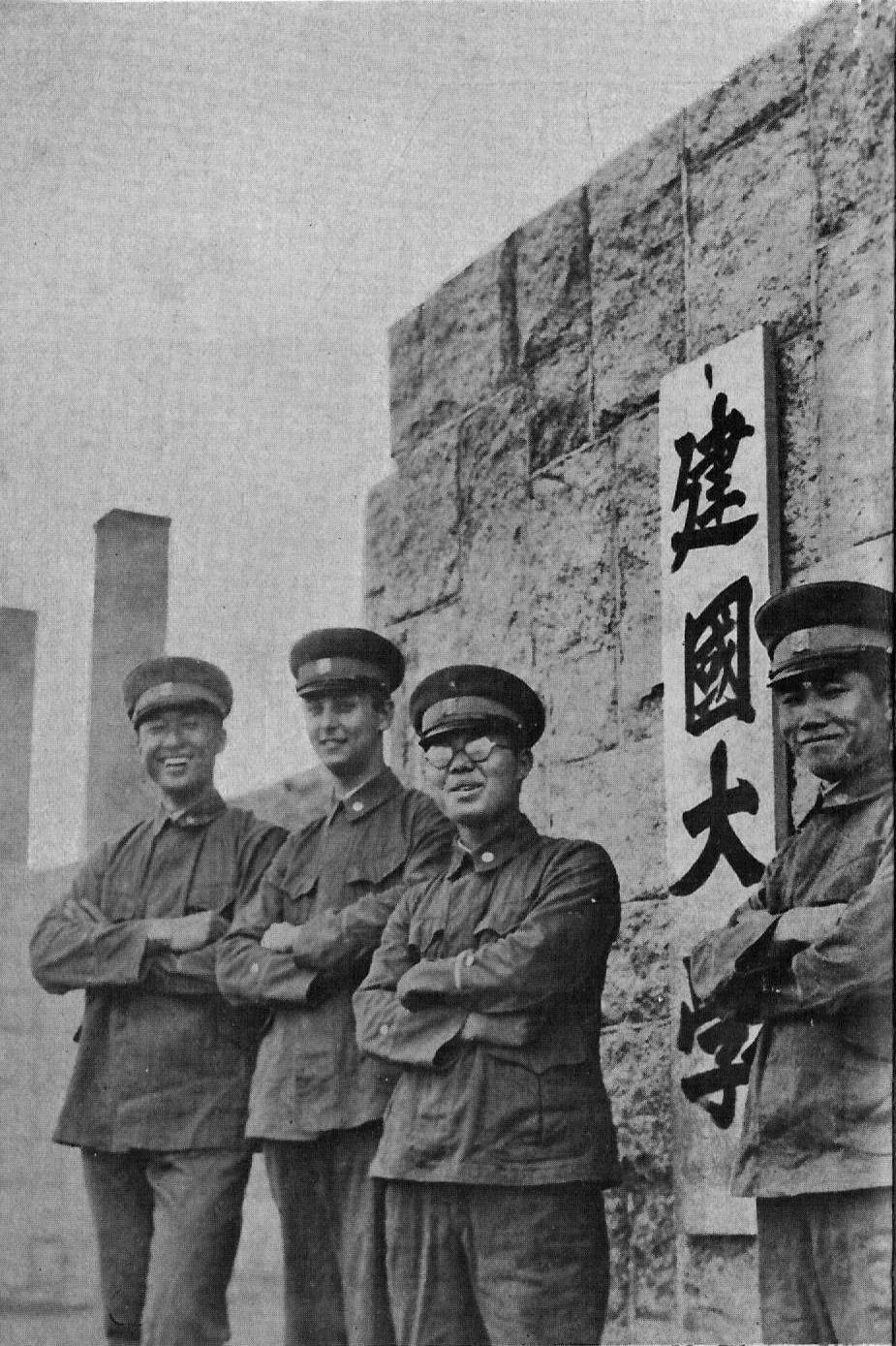 Students at Chien kuo University (existed in 1938 - 1945) in Hsinking (Changchun), Manchukuo.